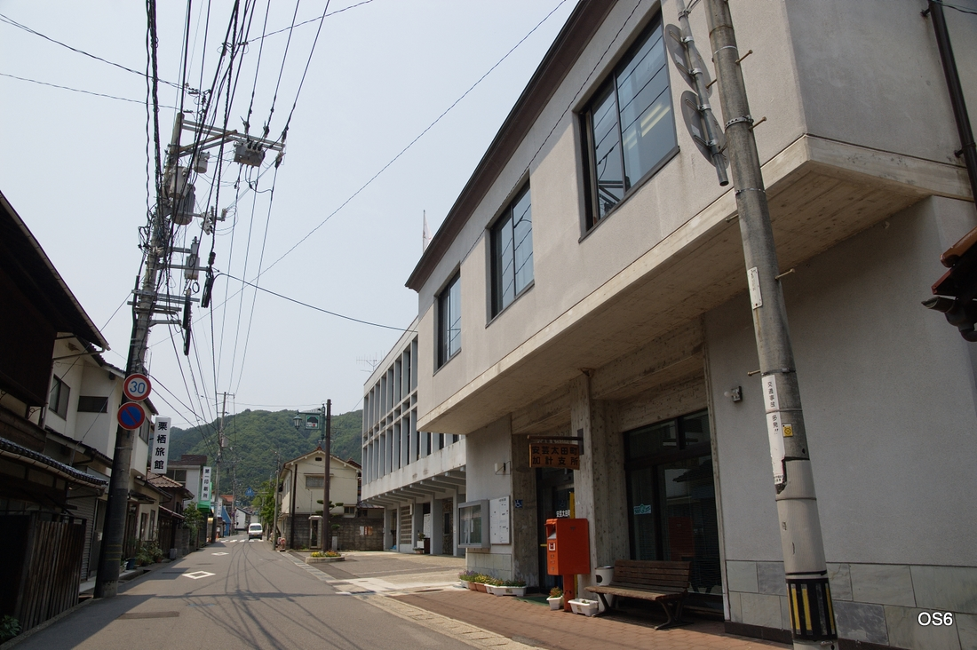 安芸太田町加計支所 (Akiota town Kake branch office)